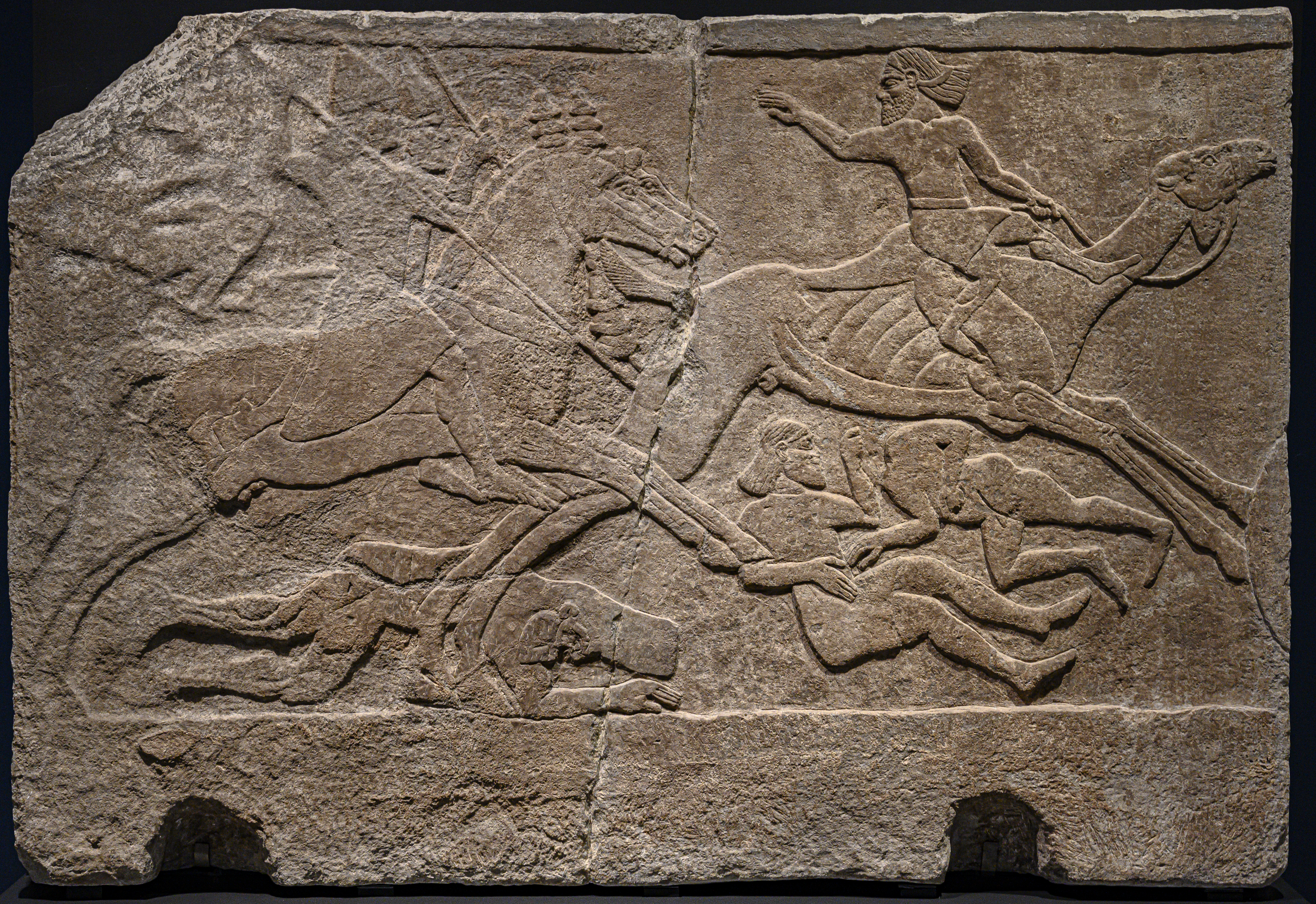 Assyrian Relief depicting Battle with Camel Rider from Kalhu (Nimrud) Central Palace Tiglath-pileser III 728 BCE British Museum. Two Assyrian cavalrymen pursue a bearded man on a camel, likely an Arab, who raises an arm as he appears to slip from the animal's back. The Assyrians drive their spears into the camel's hindquarters. One of the camel rider's companions lies dying beneath the Assyrians' horses while two more fall to the ground. The horses wear tasseled decorations on their heads that are typical of the reign of Tiglath-pileser III.